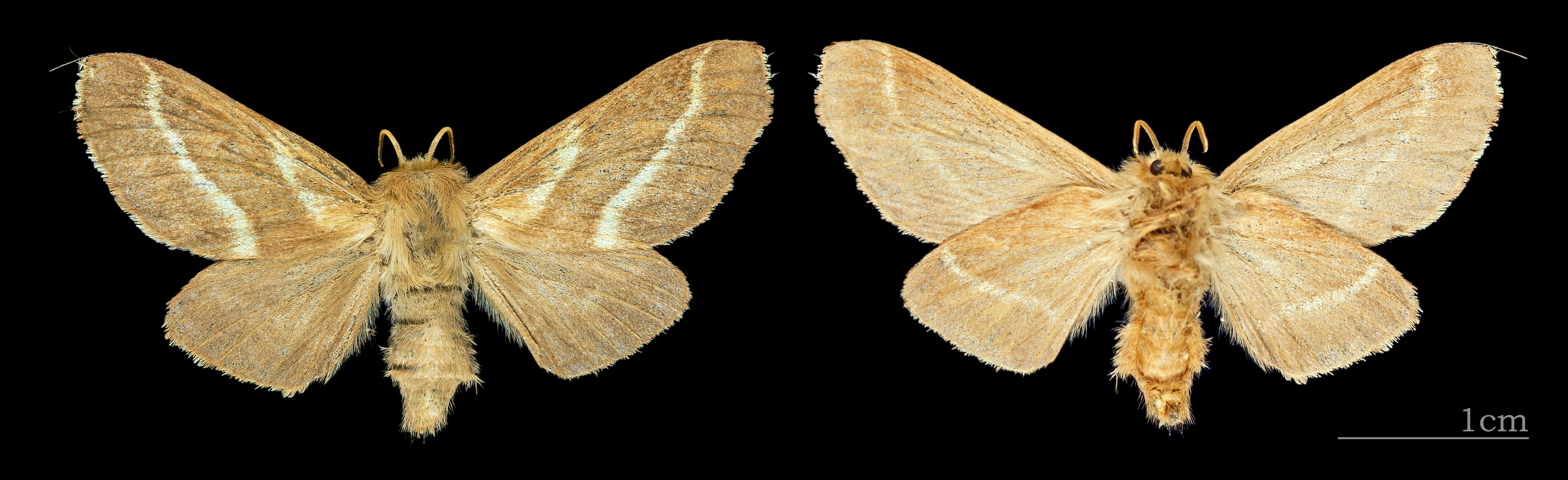 Ground Lackey - Two views of same specimen